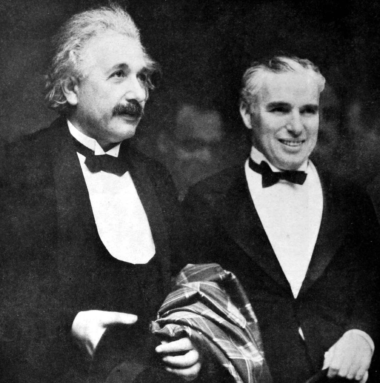 Photo of Albert Einstein and Charlie Chaplin at the Los Angeles premiere of the film City Lights. Einstein said Chaplin was the only person in Hollywood he wanted to meet. The Chaplins played host to the Einsteins at the film's premiere.